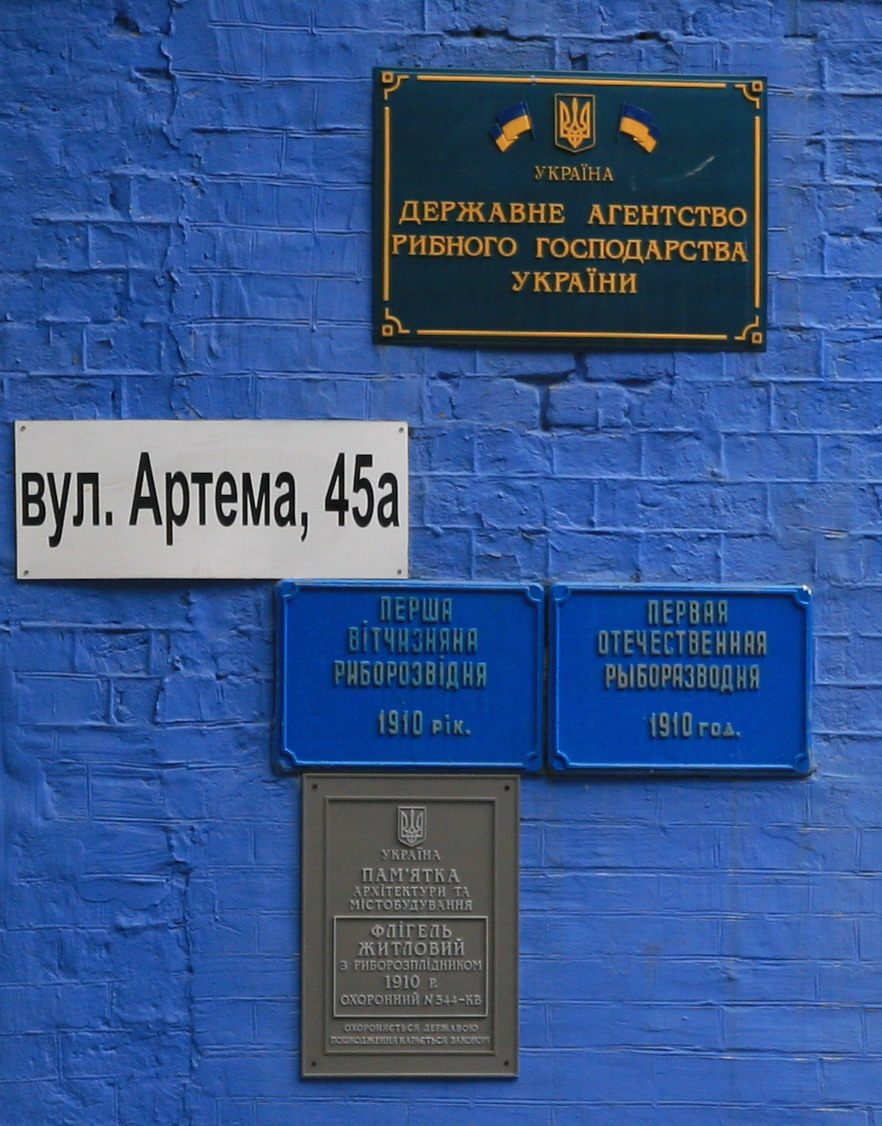 Memorial tables on building of first fishery in Russian Empire (1910), Kyiv, Artyoma str., 45A